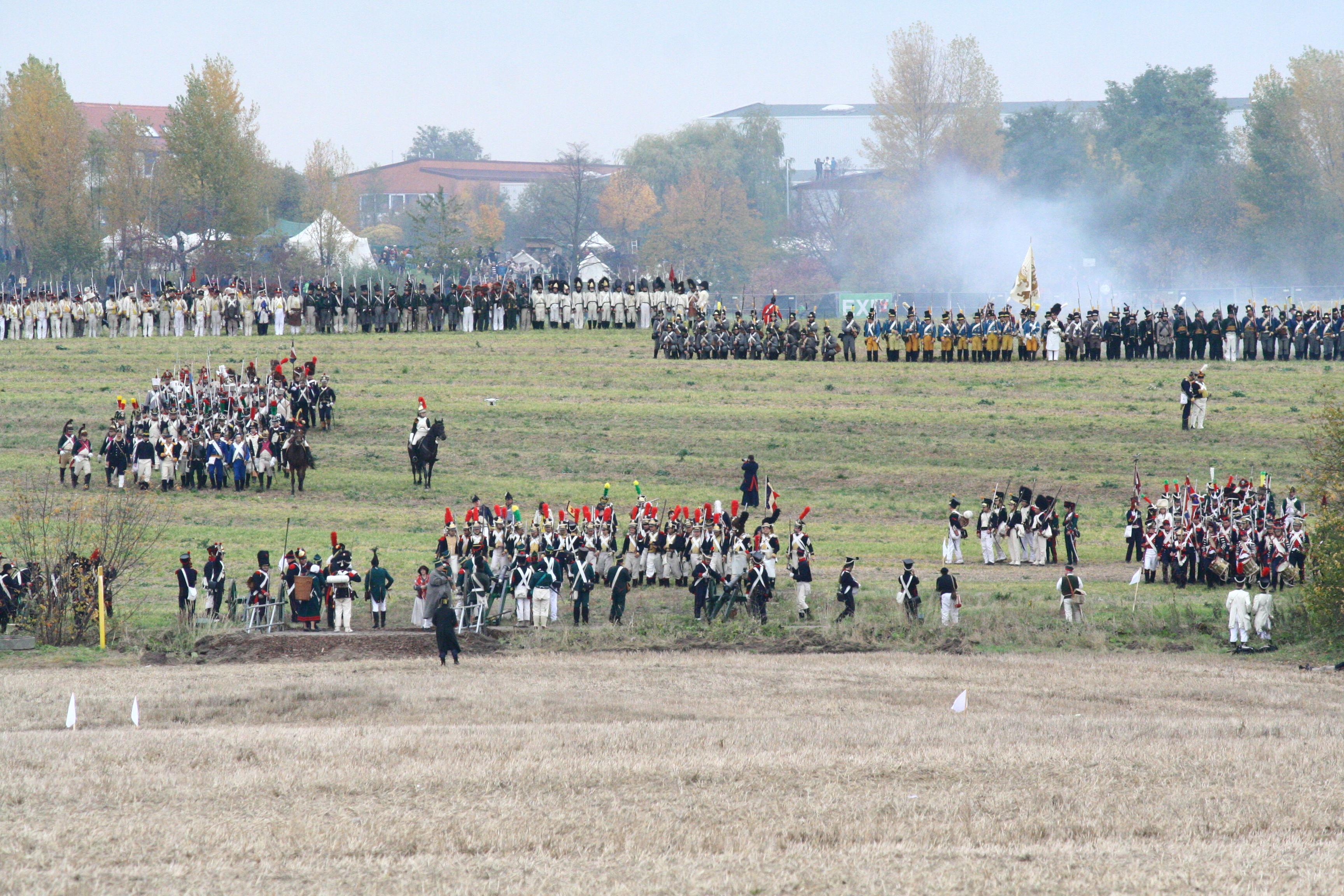 Reenactment of the Battle of Leipzig 2013